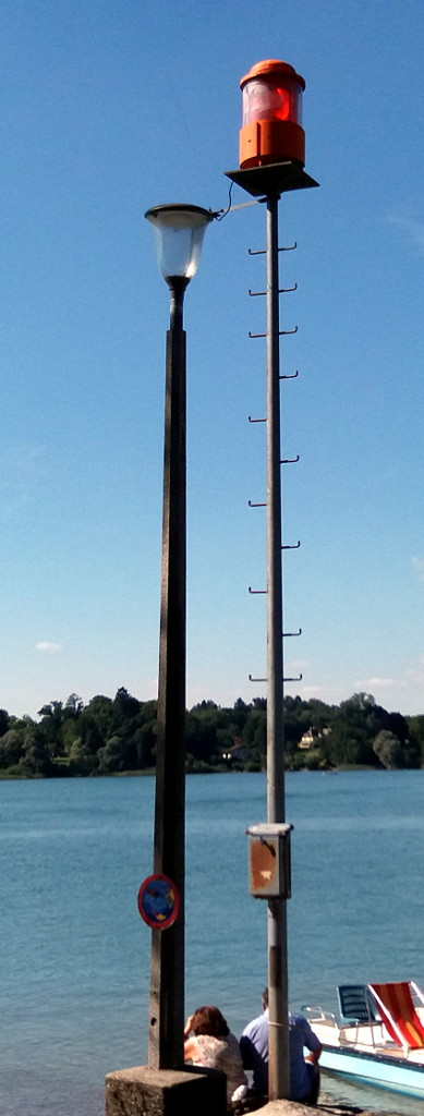 Weather beacons on the Fraueninsel (Chiemsee): left old, right new model